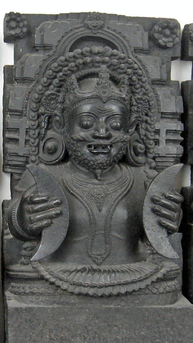 Rahu taken at the British Museum